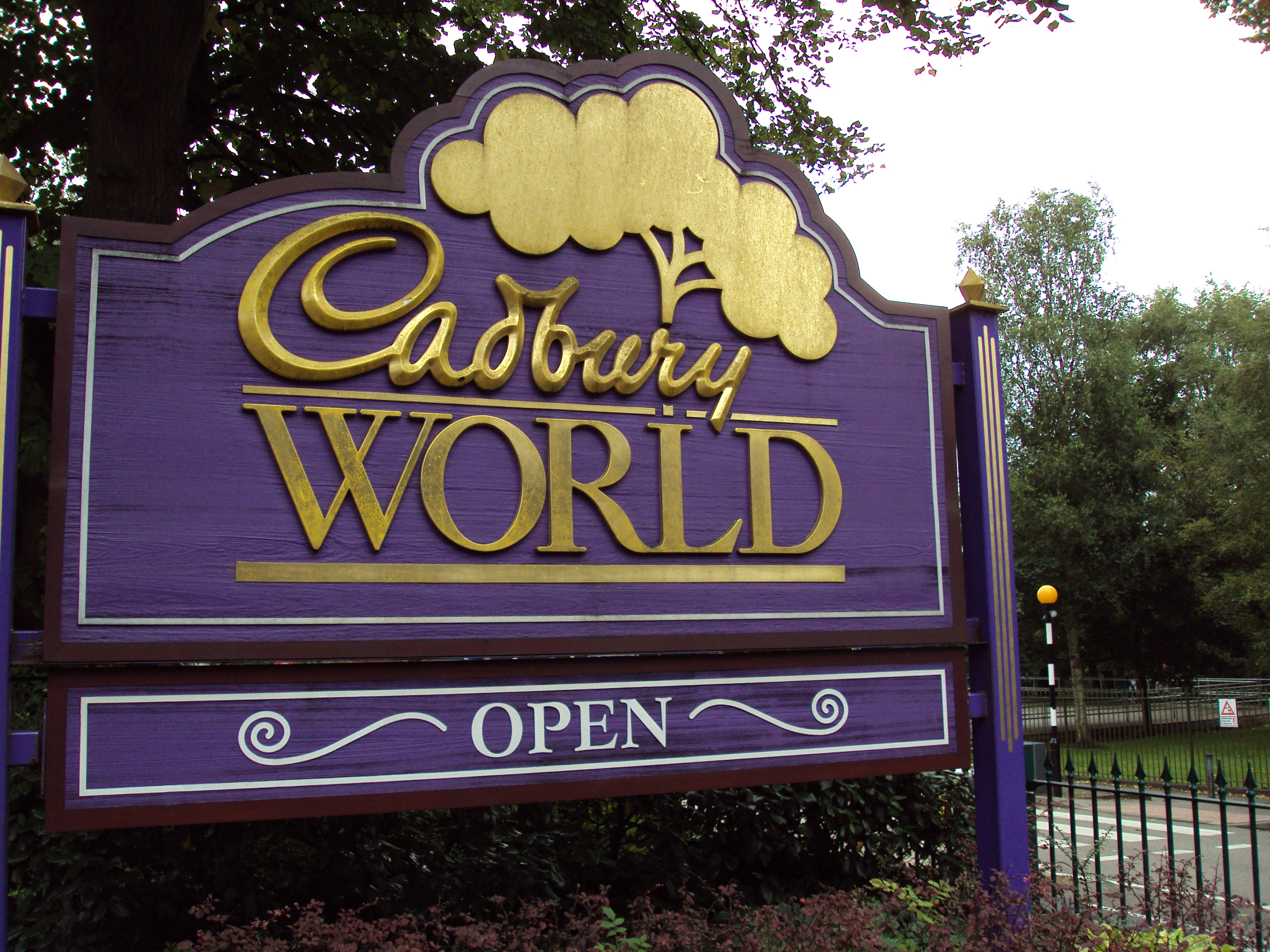 Sign outside Cadbury World, Bournville, Birmingham, England.